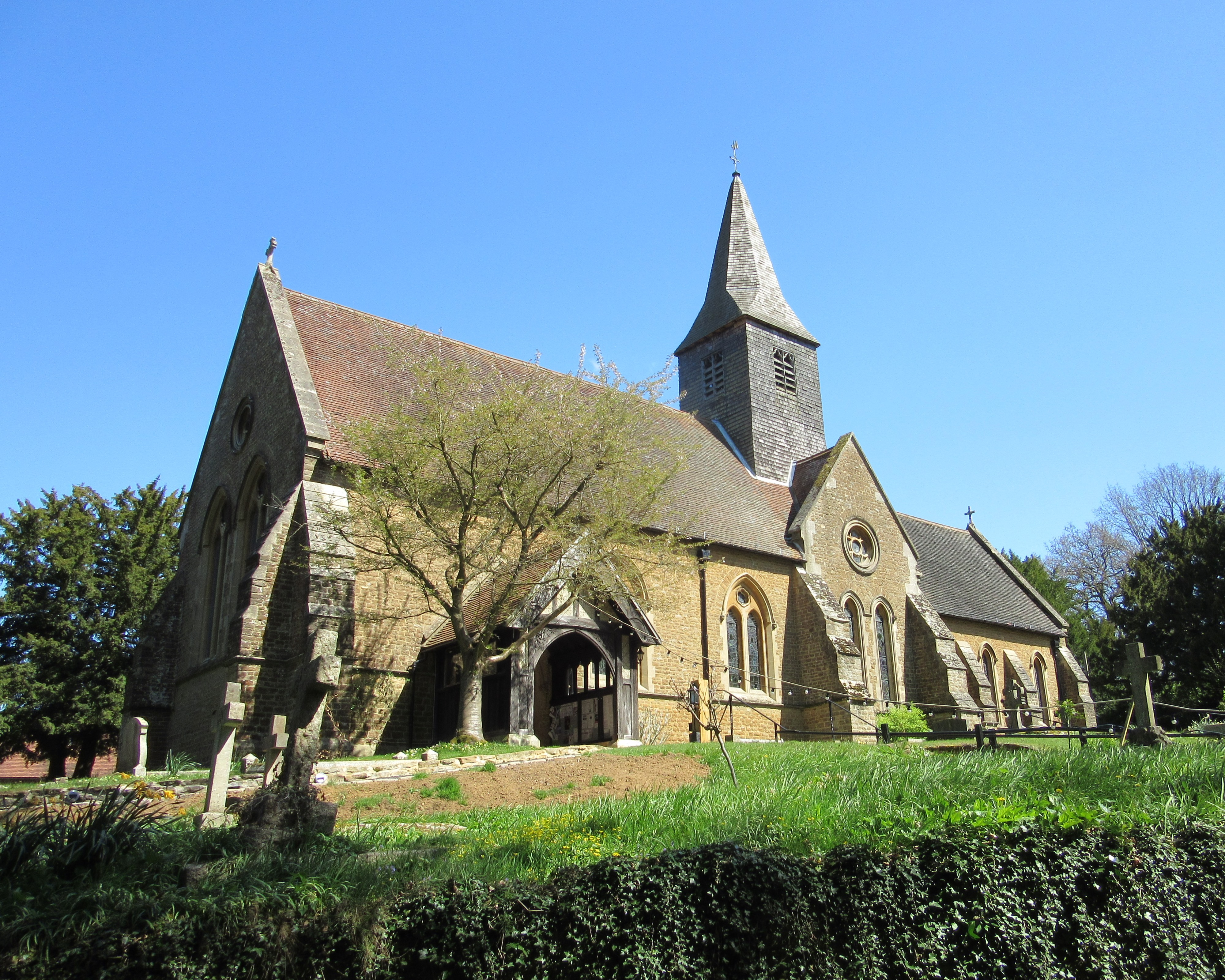 St John the Baptist's Church, Brighton Road, Busbridge, Borough of Waverley, Surrey, England.